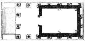 Cella of Fortuna Virilis in Rome.